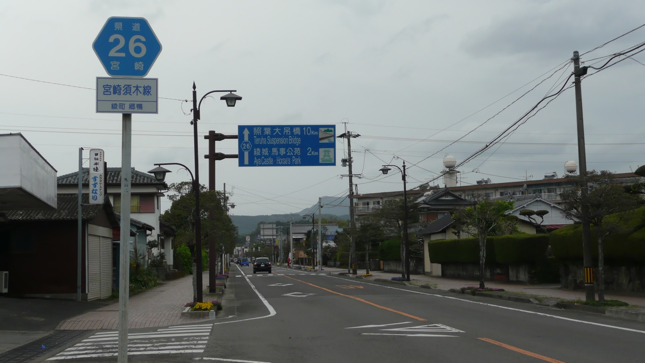 The Miyazaki Prefectural Road Route 26 in Goshigi, Aya Town